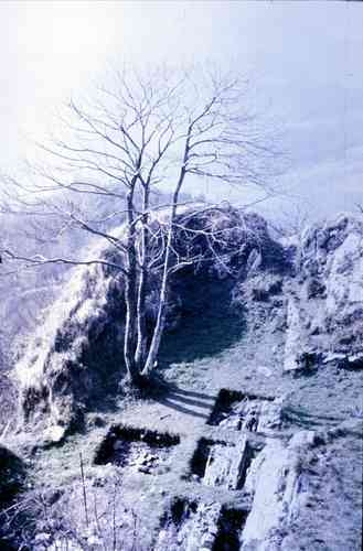 Beloaga archaeology